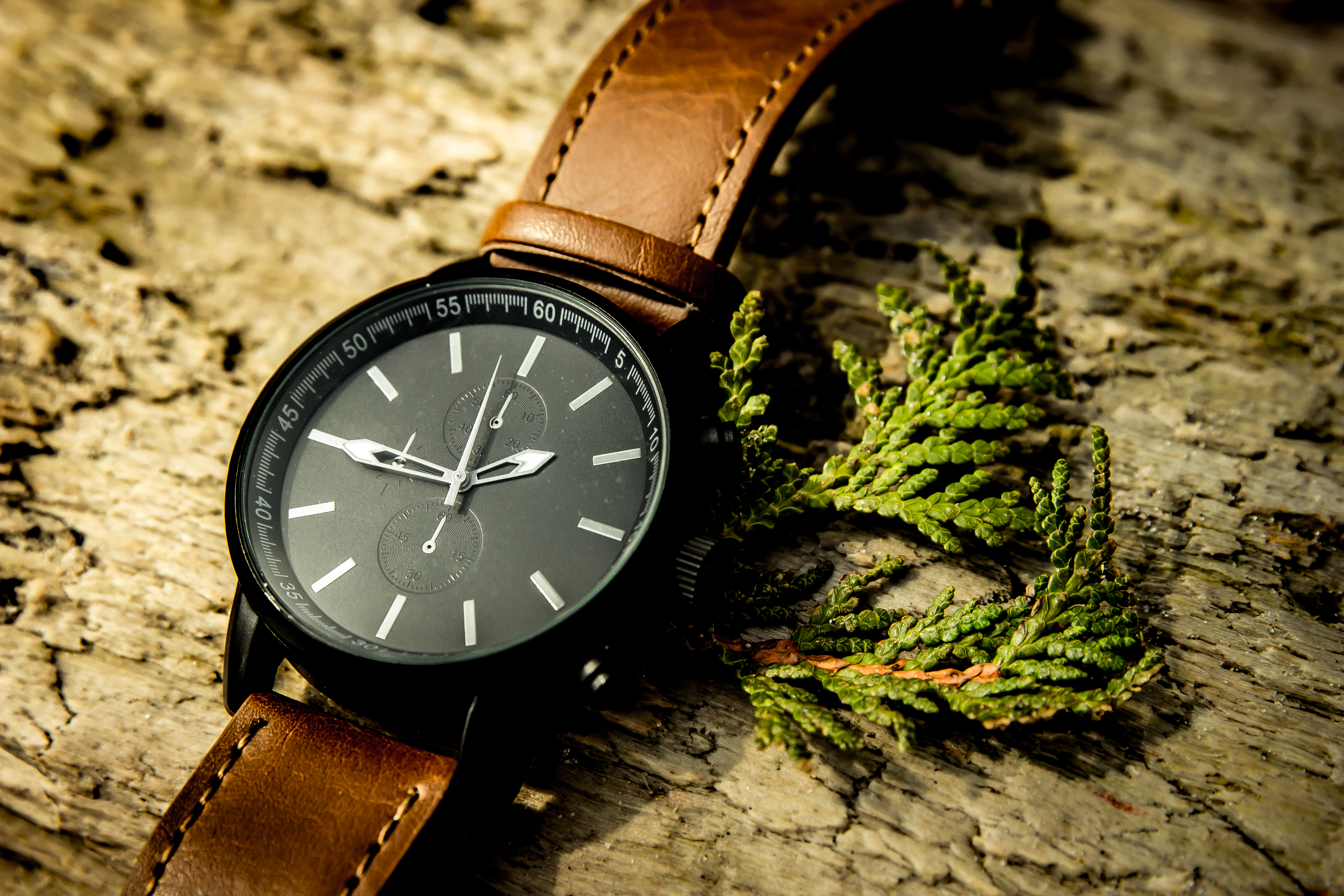 Eric Didier 2017